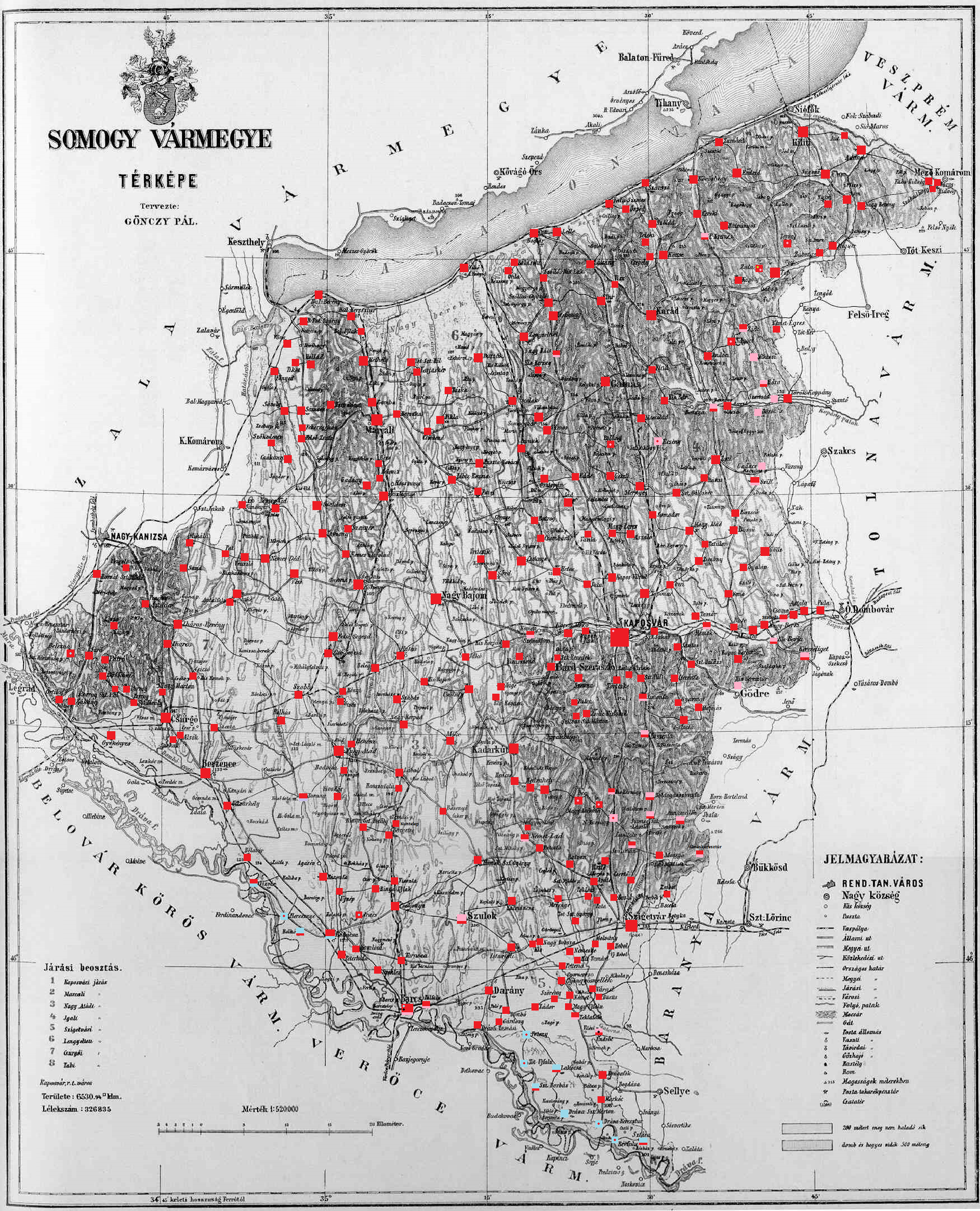 Ethnic map of the county (with data of the 1910 census). Key: red - Hungarians; pink - Germans; light blue - Croatians; light green - Slovaks; light violet - Slovenes; black - Roma. Coloured dots in plain rectangles imply the presence of smaller minority populations (generally more than 100 people or 10%). Multicoloured rectangles imply cities and villages with multi-ethnic populations with the order of the stripes following the ethnic composition of the settlement.